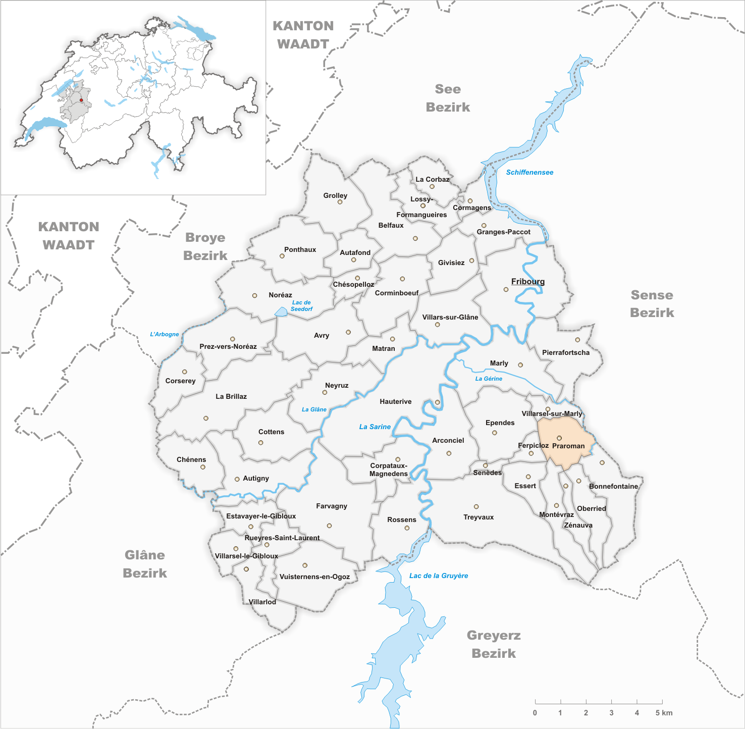 Municipality Praroman Artist: Tschubby